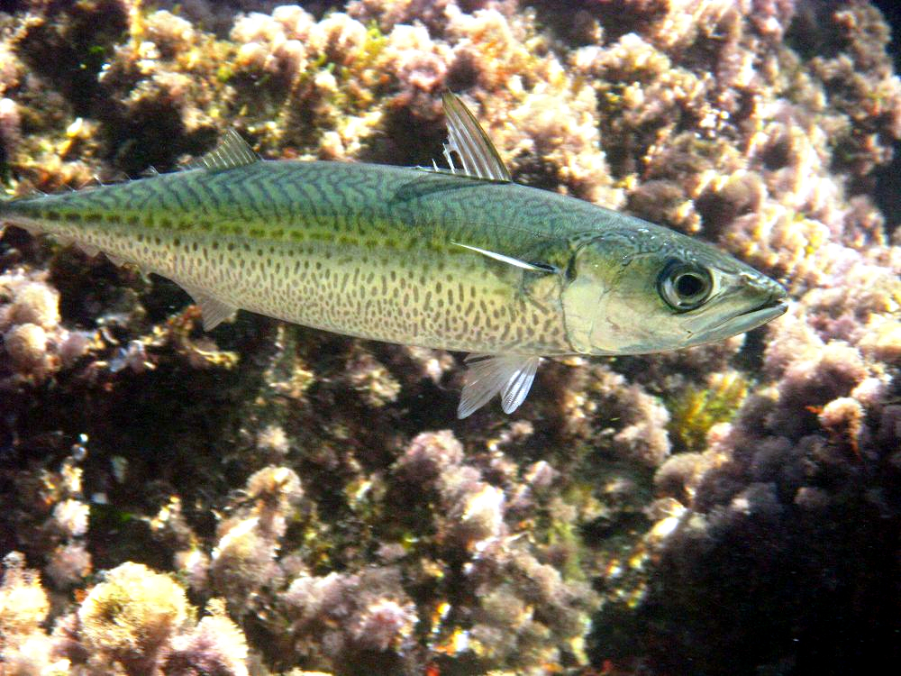 Scomber colias, specimen photographed in Liguria, Italy